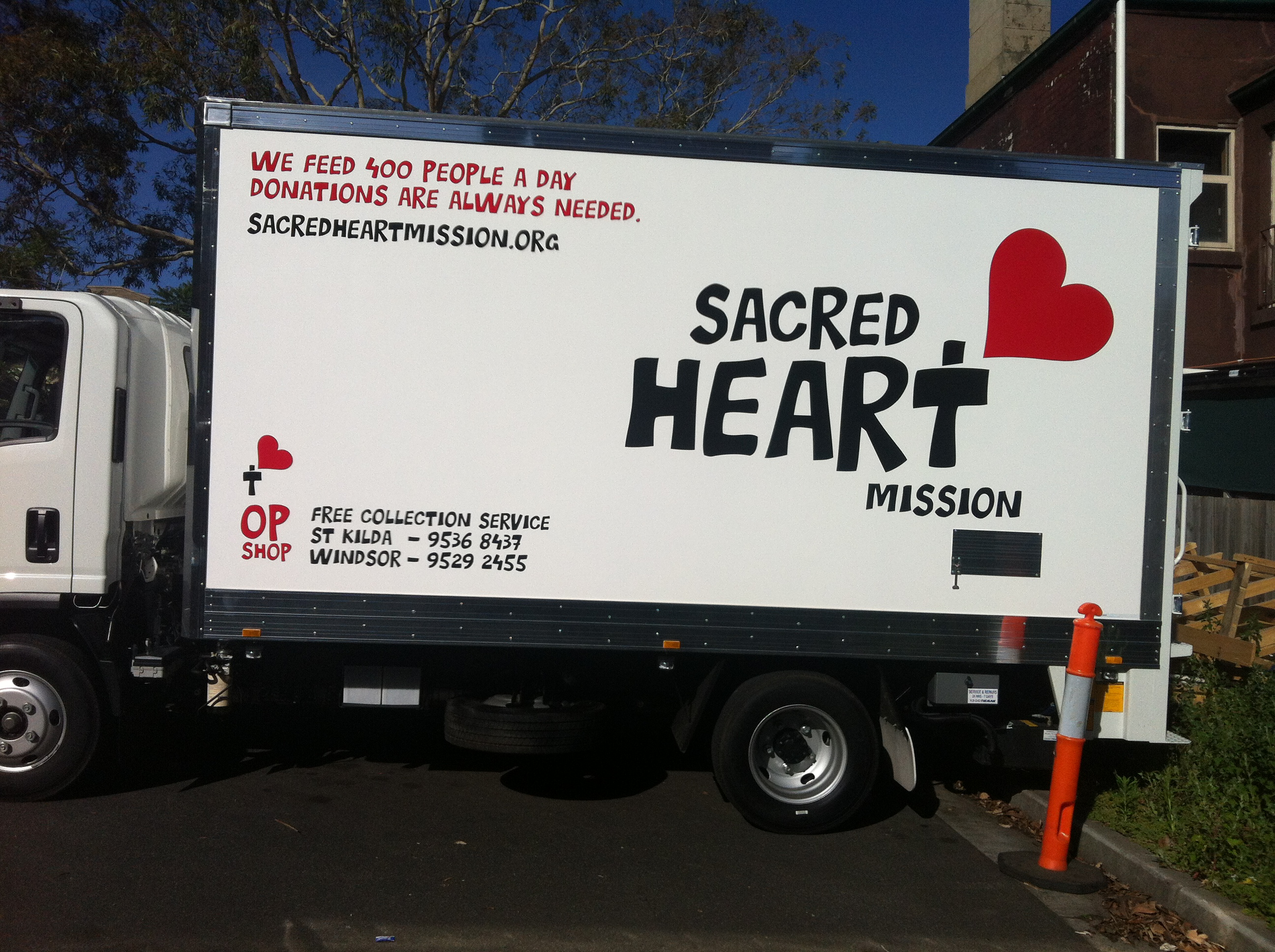 Sacred Heart Mission collection truck